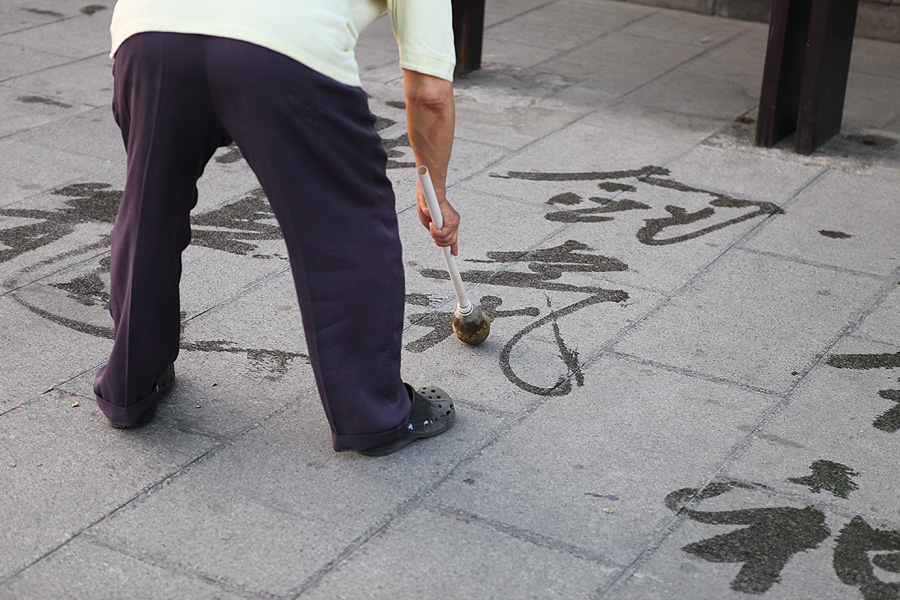 Bei Hai Park. In China, there are many people who practice calligraphy in public places such as parks and sidewalks, using water as their ink and the ground as their paper.